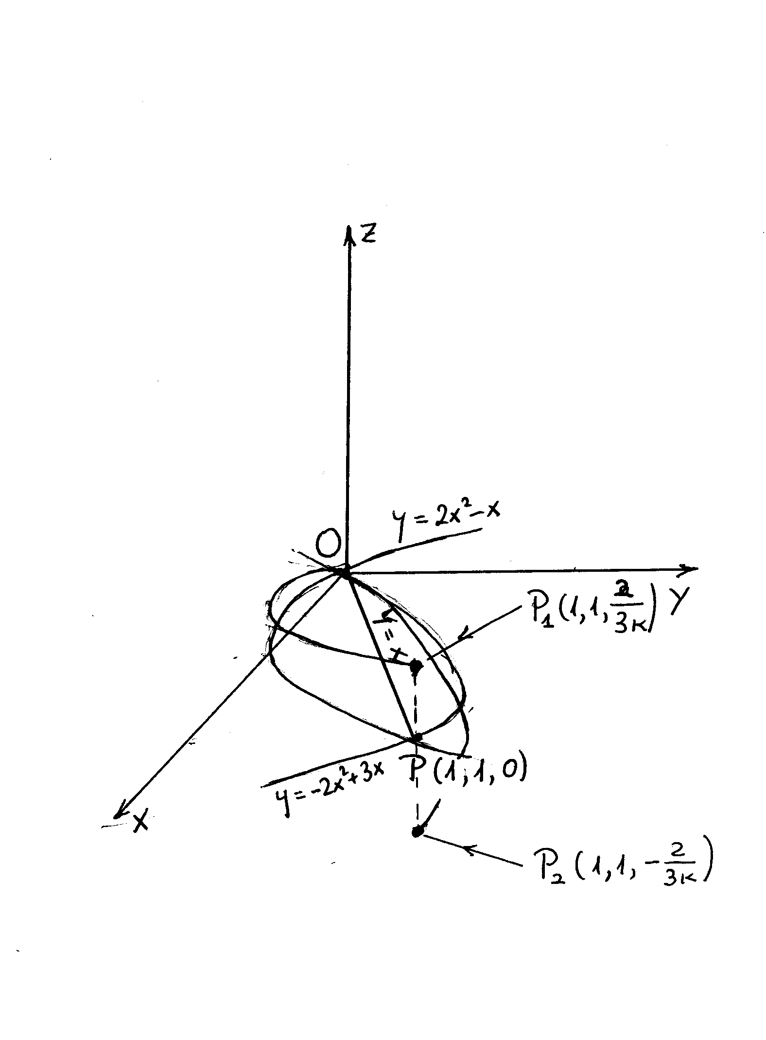 Graphical illustration of the notion of "nonintegrability" for differential forms